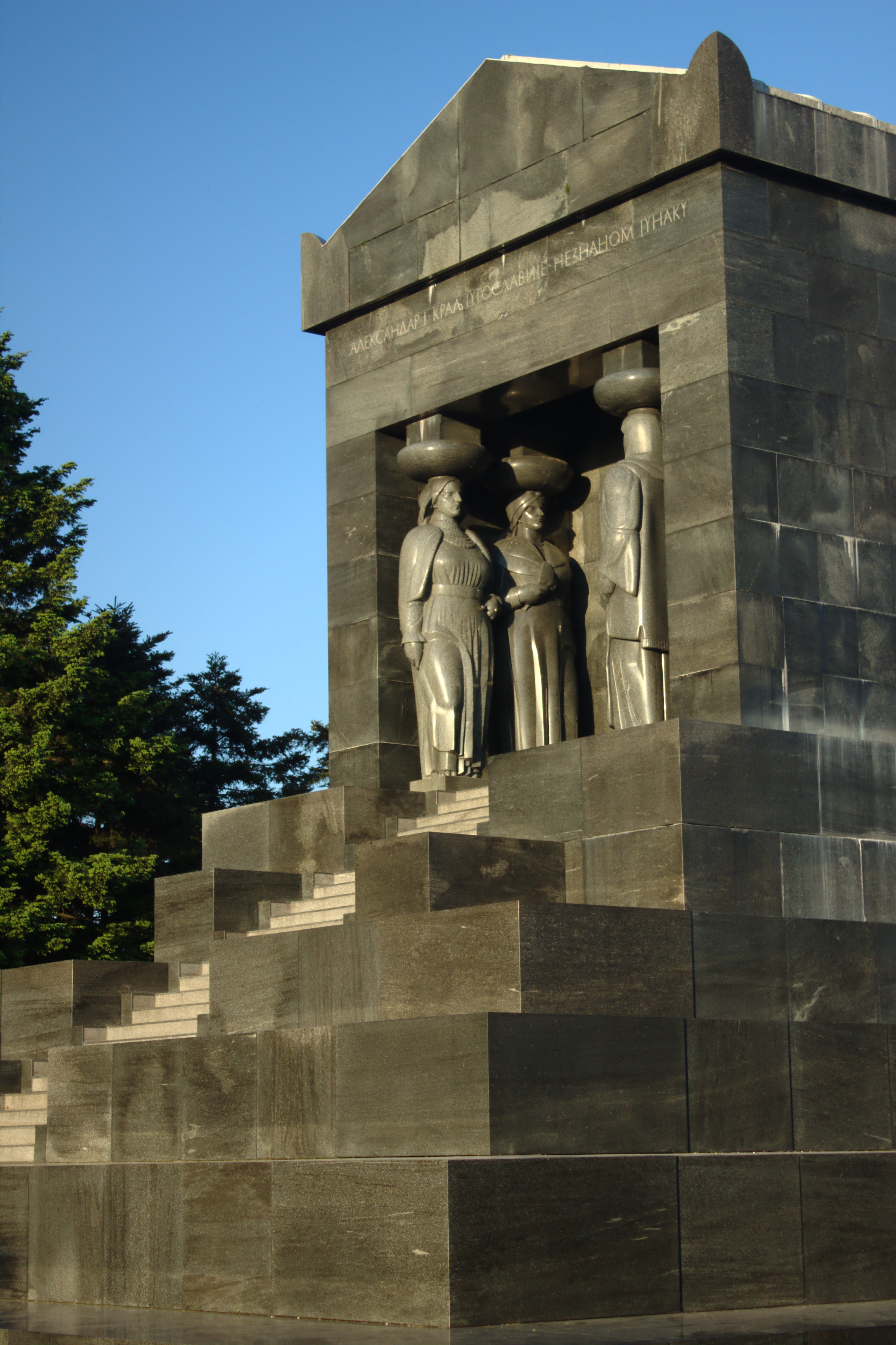 A monument to the unknown soldier on Avala hill near Belgrade, Serbia